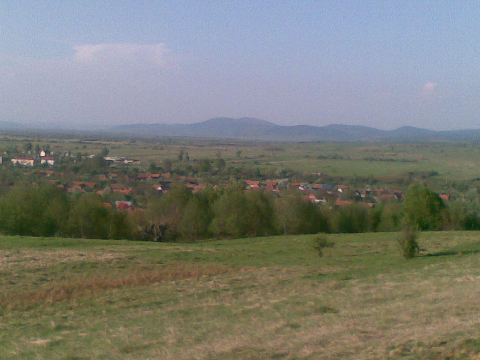 This image is the panormaic of Şinca Veche village, Braşov county